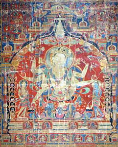 A Thangka — with representation of the goddess Usnisavijaya, flanked by two assistant bodhisattvas. Gouache on canvas 84 x 67 cm L. Fournier donation with usufruct MA 5195 Throughout the Tibetan Buddhist Himalayan and Chinese world, this deity appeared inside a stupa. This representation of the goddess Usnisavijaya, flanked by two assistant bodhisattvas carrying flywhisks, has three heads and eight hands holding her attributes. Her right-hand head is gilded; her left-hand one is blue and has a fierce expression; her central head, like her body, is white. Here, in the lower section, lions and the four guardian-kings (lokapala) of the four cardinal points are depicted. On either side of Usnisavijaya are medallions containing the seven treasures of the universal sovereign, and seven of the eight auspicious signs of Tibetan Buddhism. At the very bottom left appears the donor, in front of various offerings to the goddess. There is a substantial Nepalese influence, as shown by the small, ornamentally treated floral columns, the leafy arches, the red and blue ground embellished with monochrome foliation, or the jewels modelled on Newar creations from Kathmandu. On the other hand, the golden motifs on the central figure’s clothing, and the canon of the lokapala, all derive from China." [1]